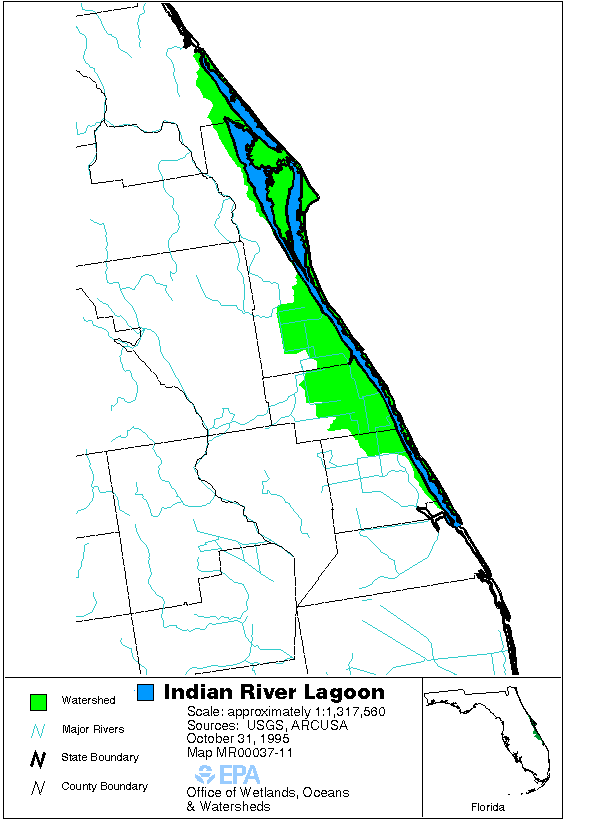 Watershed map of the Indian River Lagoon, Florida; an estuary in the EPA National Estuary Program. Modified by Donald Albury (User:Dalbury).